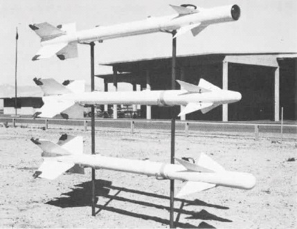 A rack with Sidewinder air-to-air missiles of the U.S. Navy in the early 1970s: AIM-9B, AIM-9D, and AIM-9C (from top to bottom).